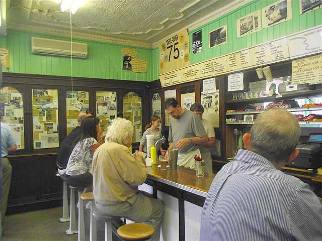 Interior of Wilensky's lunch counter and soda fountain in Montreal, Quebec, Canada